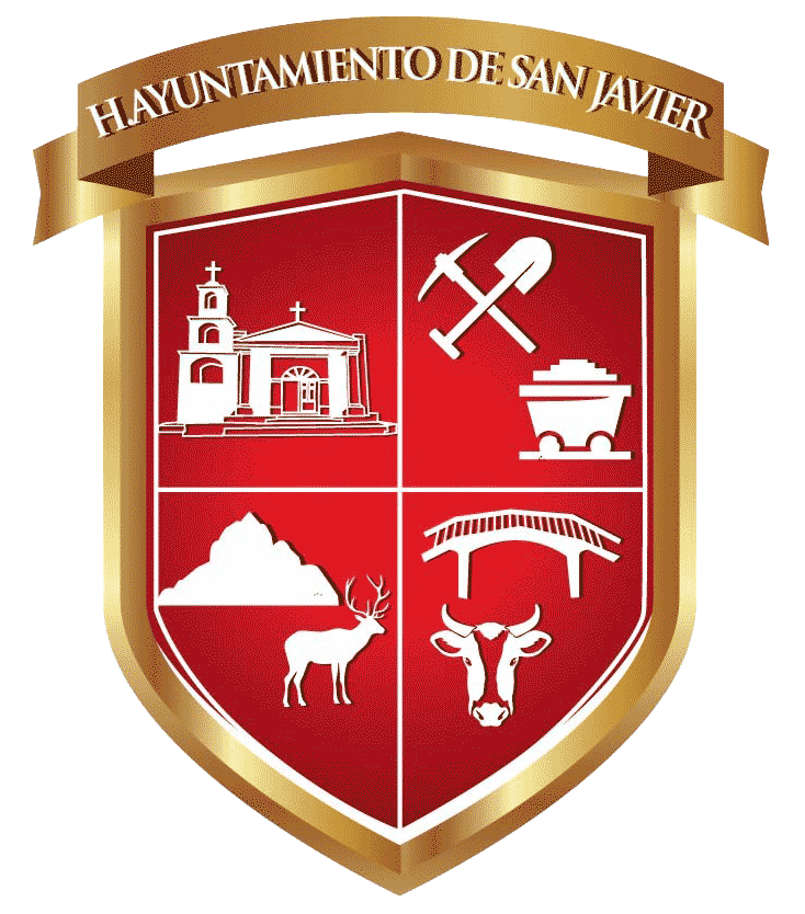 Escudo de armas del municipio de San Javier